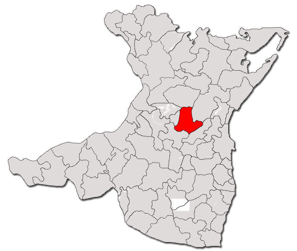 Contour map of commune 23 August